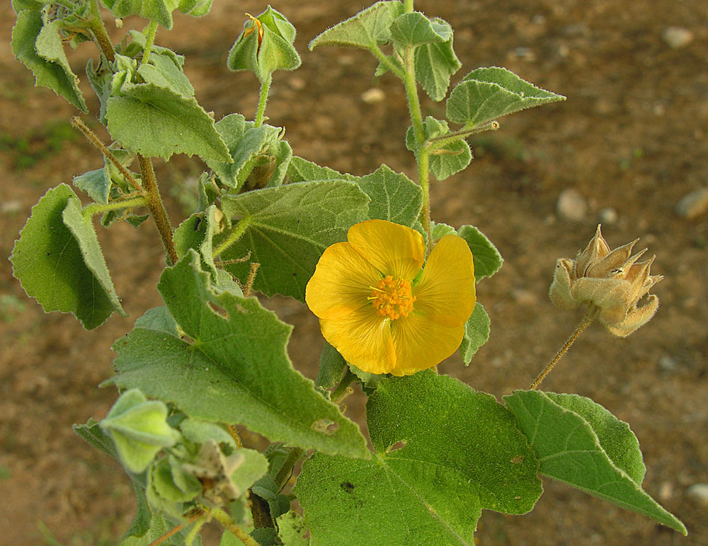 A weed of southwestern U.S. and northwestern Mexico, going by names such as Newberry's Velvetmallow. Photo from the Cerritos area of Baja California.